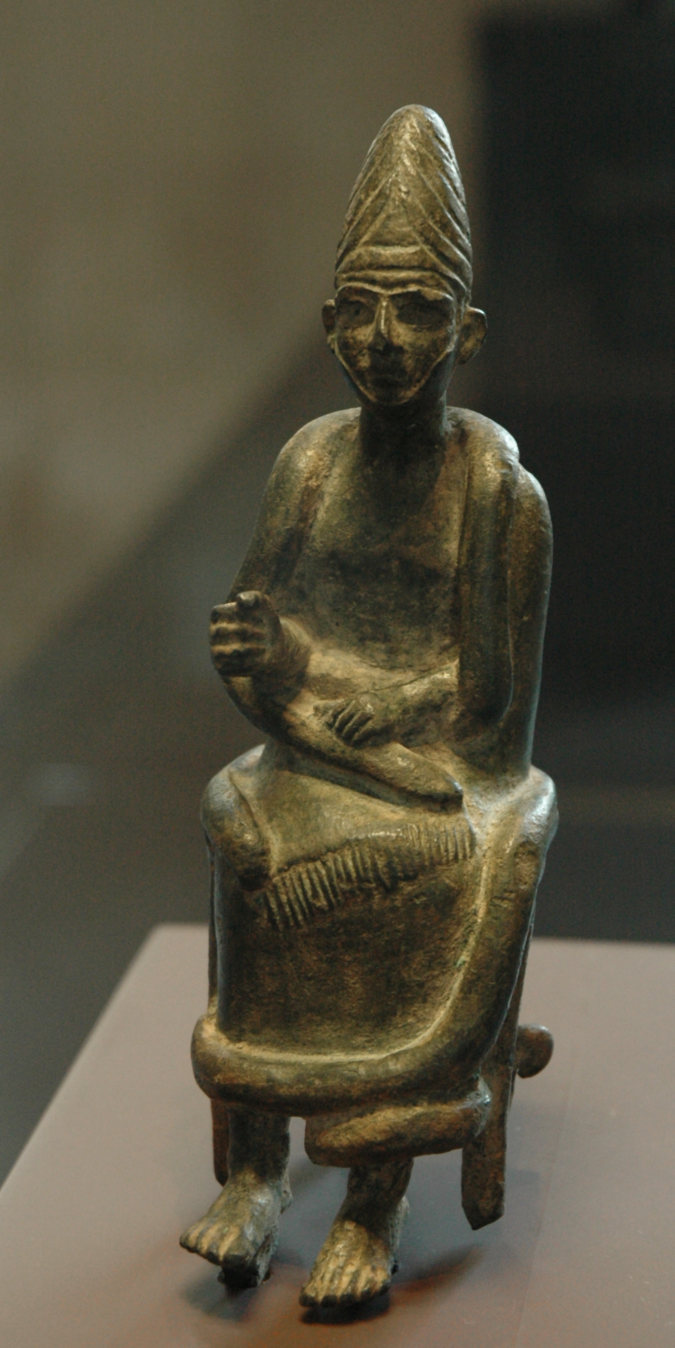 Sitting god from Qatna (now Tell Mishrife, Syria). Bronze, Middle Bronze Age (ca. 1600 BC).